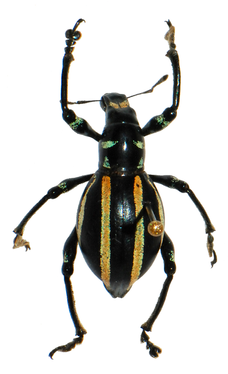 A pinned specimen of a Philippine weevil, tentatively identified as Pachyrhynchus inclytus Pascoe.